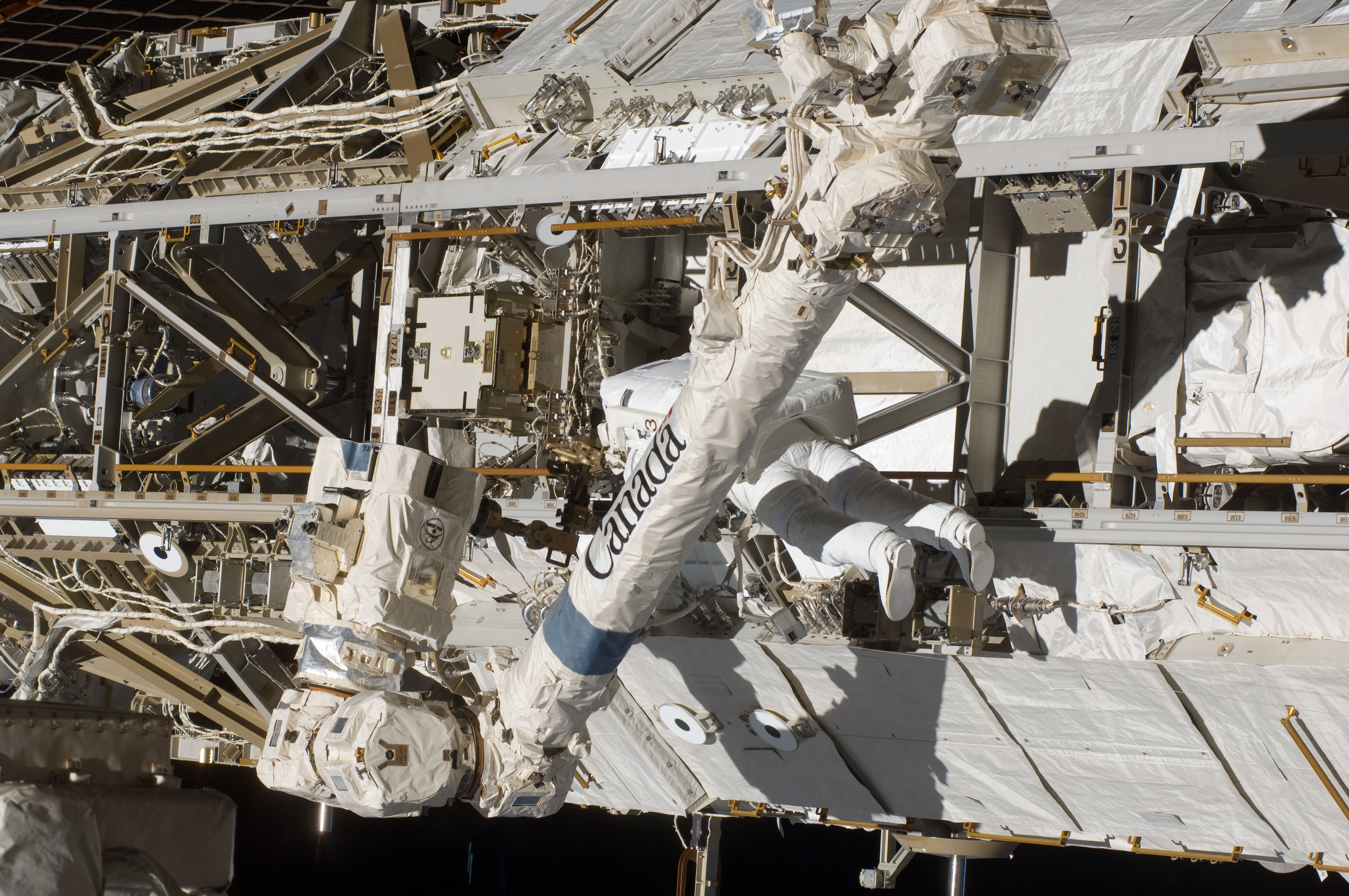 Astronaut Robert L. Satcher Jr., STS-129 mission specialist, participates in the mission's first session of extravehicular activity (EVA) as construction and maintenance continue on the International Space Station. During the six-hour, 37-minute spacewalk, Satcher and astronaut Mike Foreman (out of frame), mission specialist, installed a spare S-band antenna structural assembly to the Z1 segment of the station's truss, or backbone. Foreman and Satcher also installed a set of cables for a future space-to-ground antenna on the Destiny laboratory and replaced a handrail on the Unity node with a new bracket used to route an ammonia cable that will be needed for the Tranquility node when it is delivered next year. The two spacewalkers also repositioned a cable connector on Unity, checked S0 truss cable connections, and lubricated latching snares on the Kibo robotic arm and the station's mobile base system.